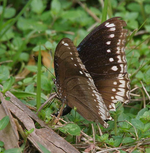 Great Eggfly Hypolimnas bolina in Kolkata, West Bengal, India.